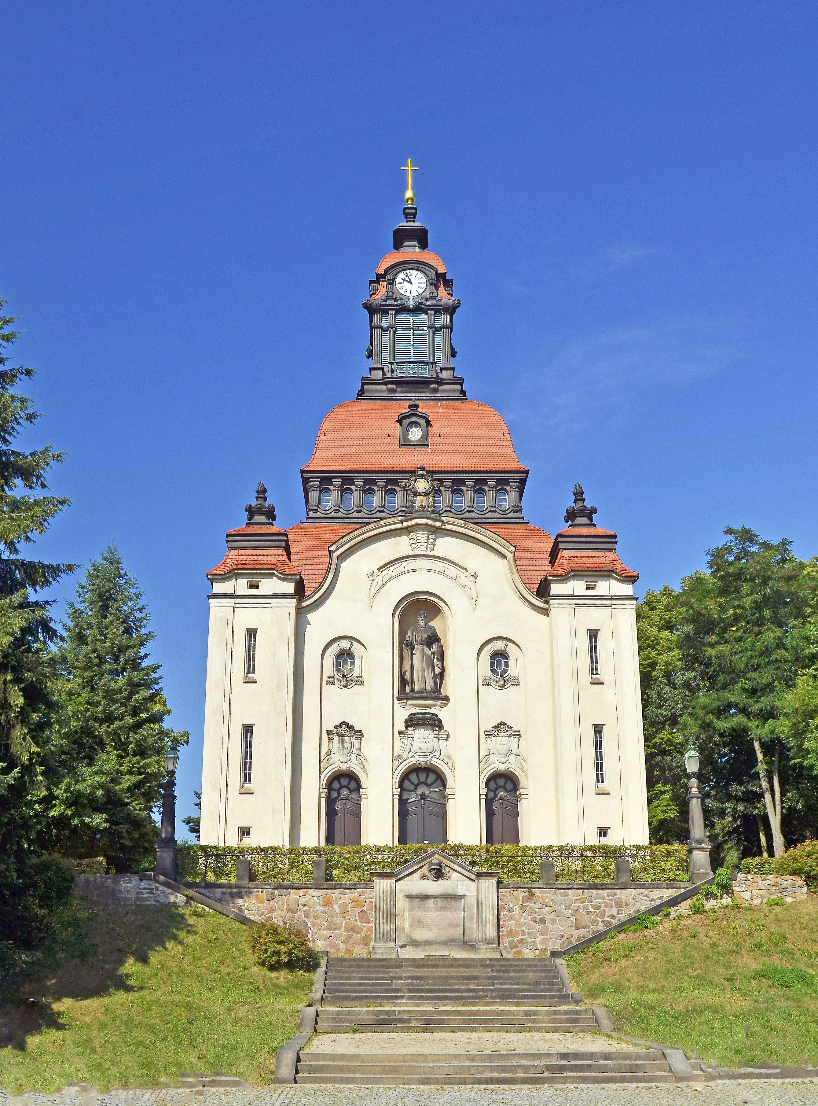 Moritzburg (Town) - evang.-lutherische Moritzburger Church